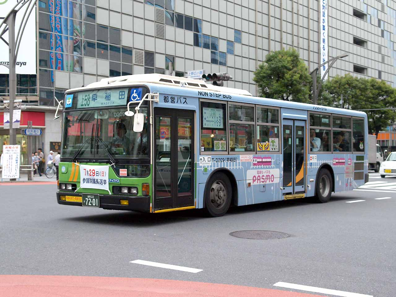 Toei Bus "Minkuru" Bus changed to PASMO advertising since 2007, starting Ueno. Model: Mitsubishi Fuso Aero Star KC-MP747K License plate: TKN22KA7201（練馬22か7201） Place: Ueno Hirokoji, Taito ward, Tokyo Japan